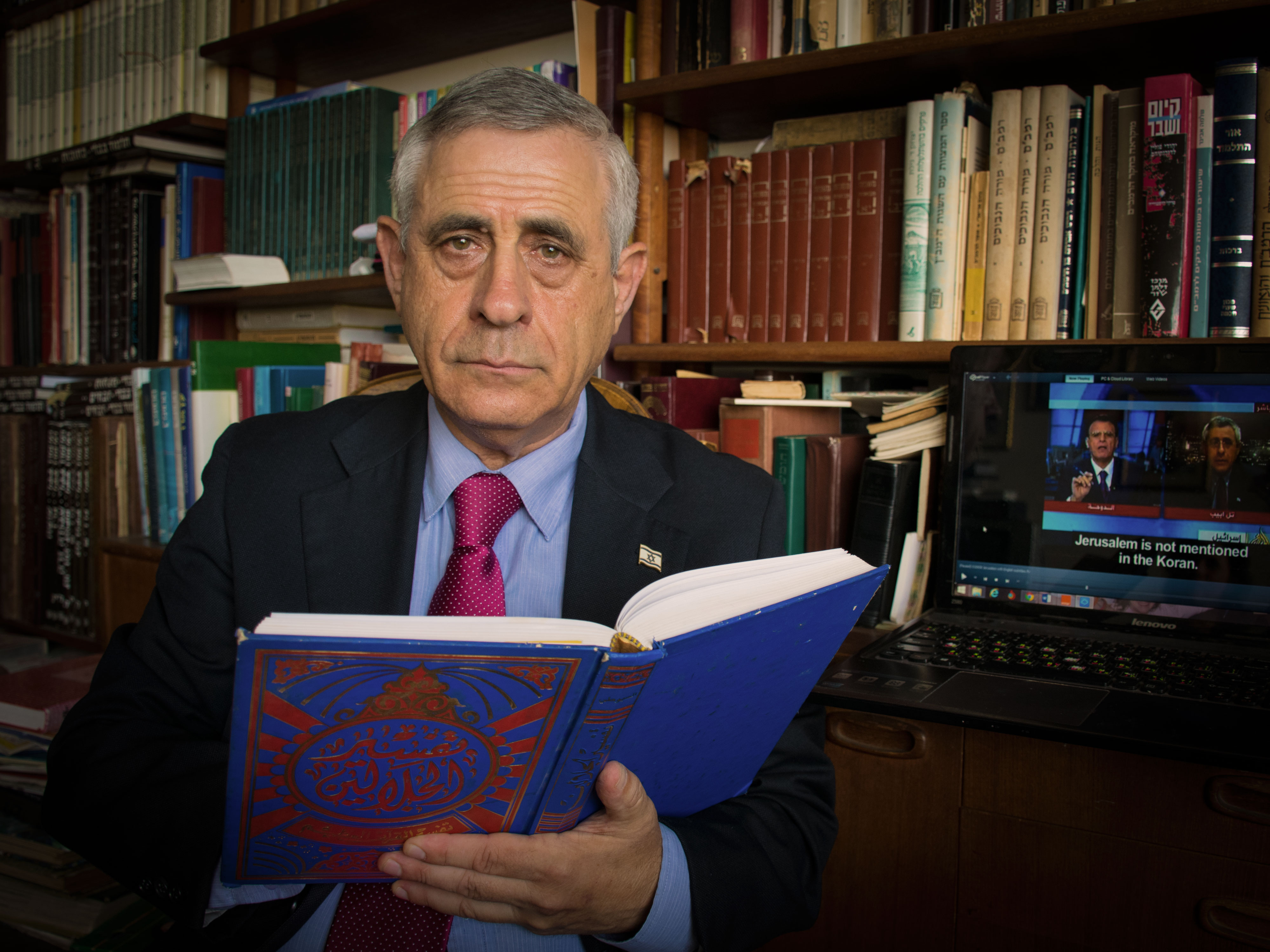 Mordechai Keidar - Ph.D Israeli Scholar, researcher and lecturer of Islam and Arab culture. Became famous for being one of the few Arabic-speaking Israelis interviewed for Arabic satellite channels such as Al-Jazeera. Image created as part of the People Pictures Project of Wikimedia Israel.